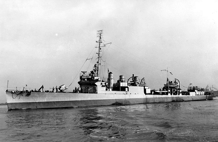 USS Blakeley (DD-150) Off the Philadelphia Navy Yard, Pennsylvania, 5 September 1942, following installation of a new bow and general modernization. Photograph from the Bureau of Ships Collection in the U.S. National Archives.